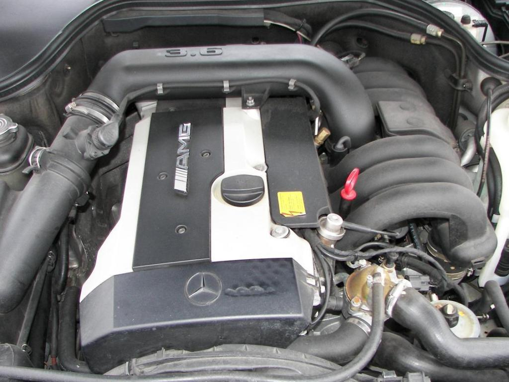 C 36 AMG engine